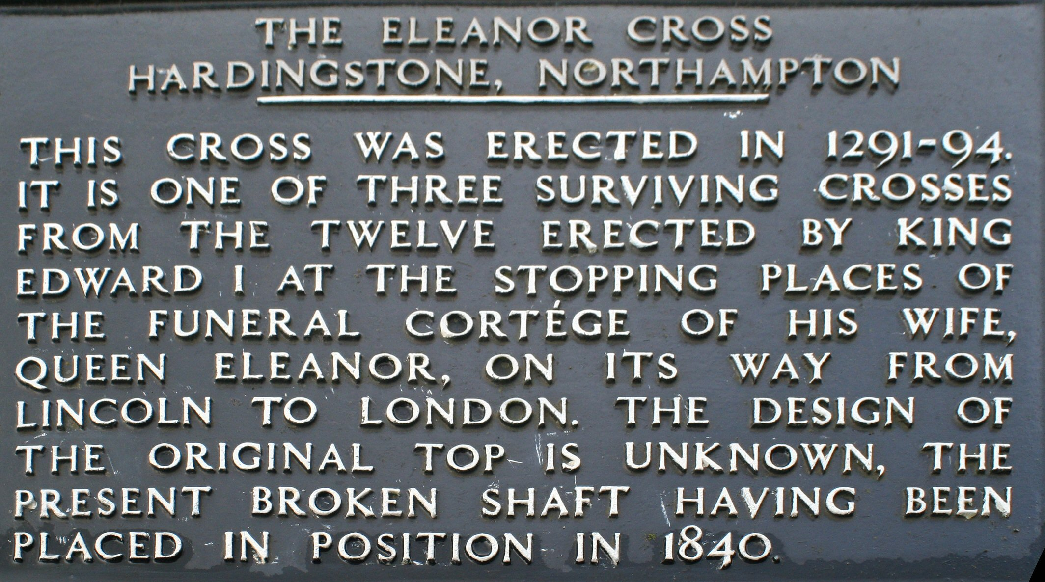 The plaque at the side of the Northampton Eleanor Cross . Picture taken by R Neil Marshman (c) 28 October 2005